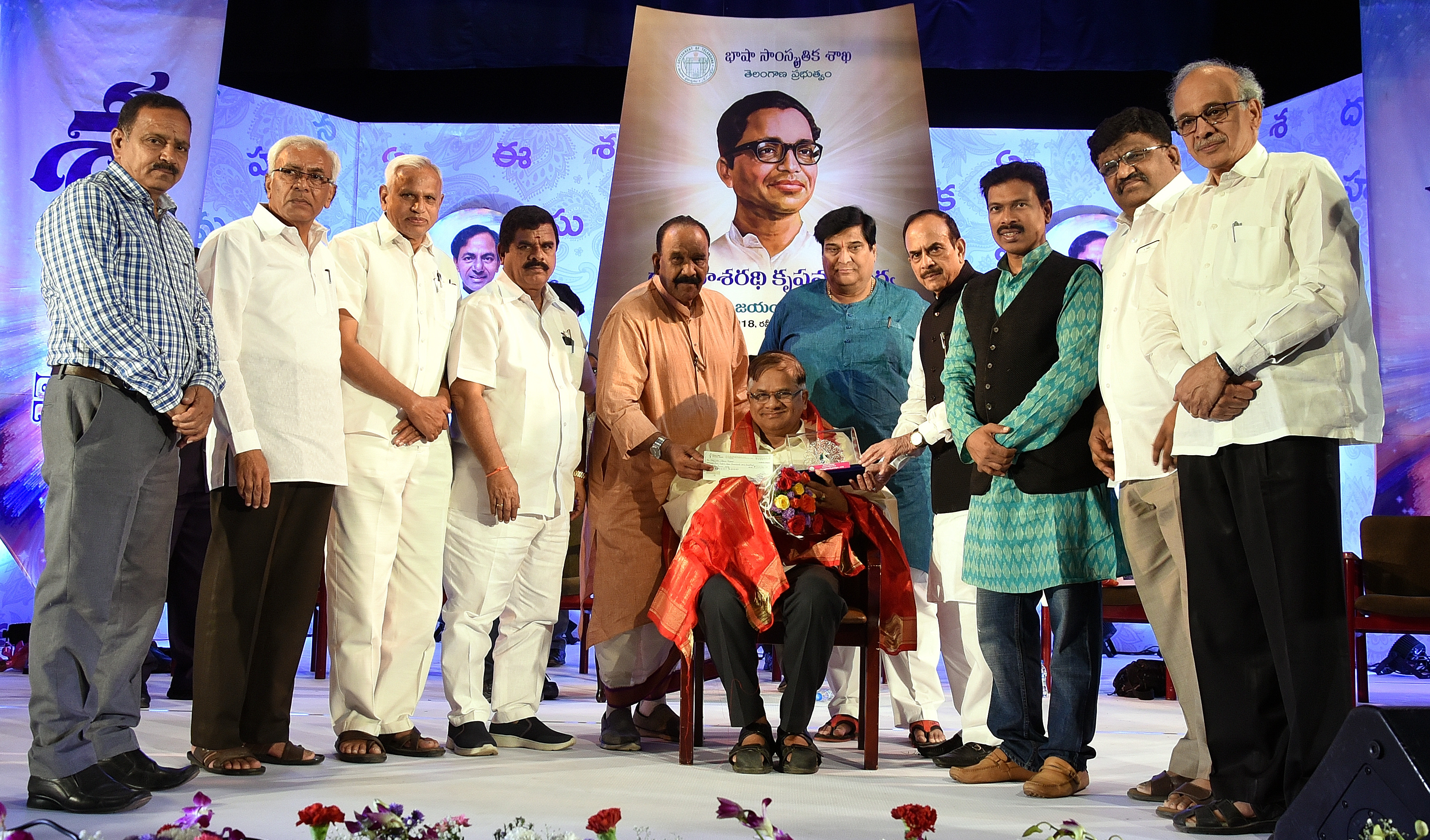 Vajhula Shivakumar Receiving Dasarathi Sahiti Puraskaram 2018